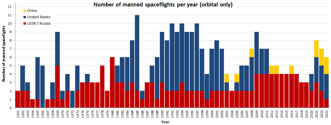 Number of manned spaceflights per year